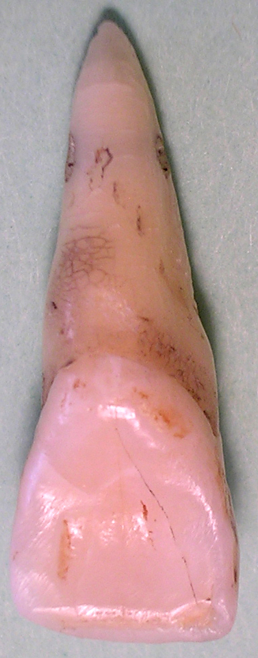 Photo of a permanent maxillary central incisor (#9 by the universal system of notation) taken from the lingual view. Source: Photo taken by dozenist on June 6, 2006.